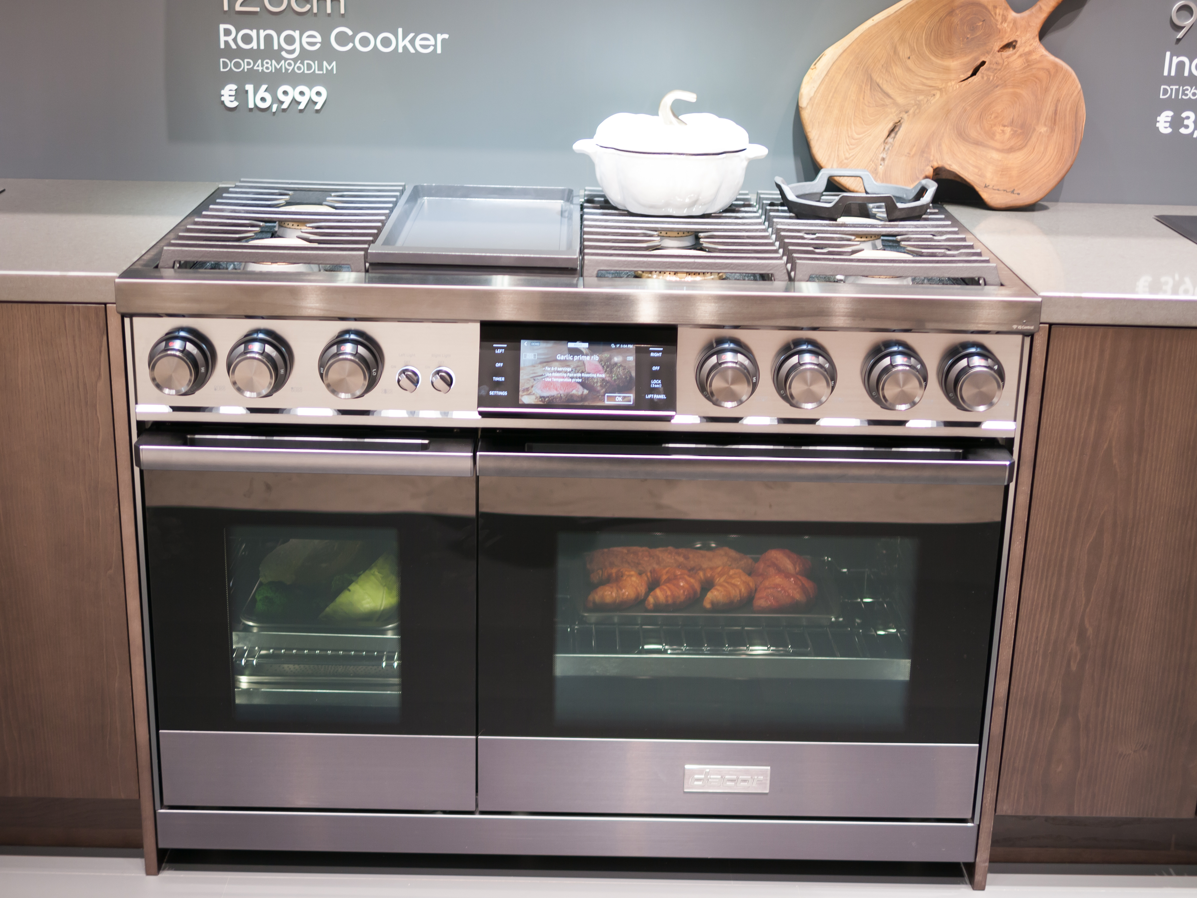 Samsung, Internationale Funkausstellung 2018, Berlin